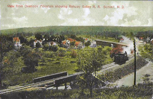 Trains were an important source of development for Summit, NJ, since about the 1850s.